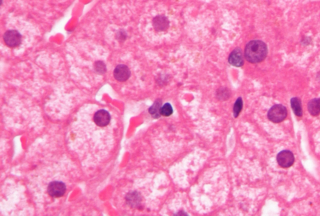 High magnification micrograph of ground glass hepatocytes, as seen in a chronic hepatitis B infection with a high viral load. Liver biopsy. H&E stain. Lipofuscin (fine brown/yellow granular pigment) is seen in several of the hepatocytes. See also Image:Ground glass hepatocytes high mag.jpg - uncropped version of this image. Image:Ground glass hepatocytes intermed mag.jpg - intermediate magnification view. Image:Ground glass hepatocytes high mag cropped 2.jpg - cropped version of another high magnification image - different case.